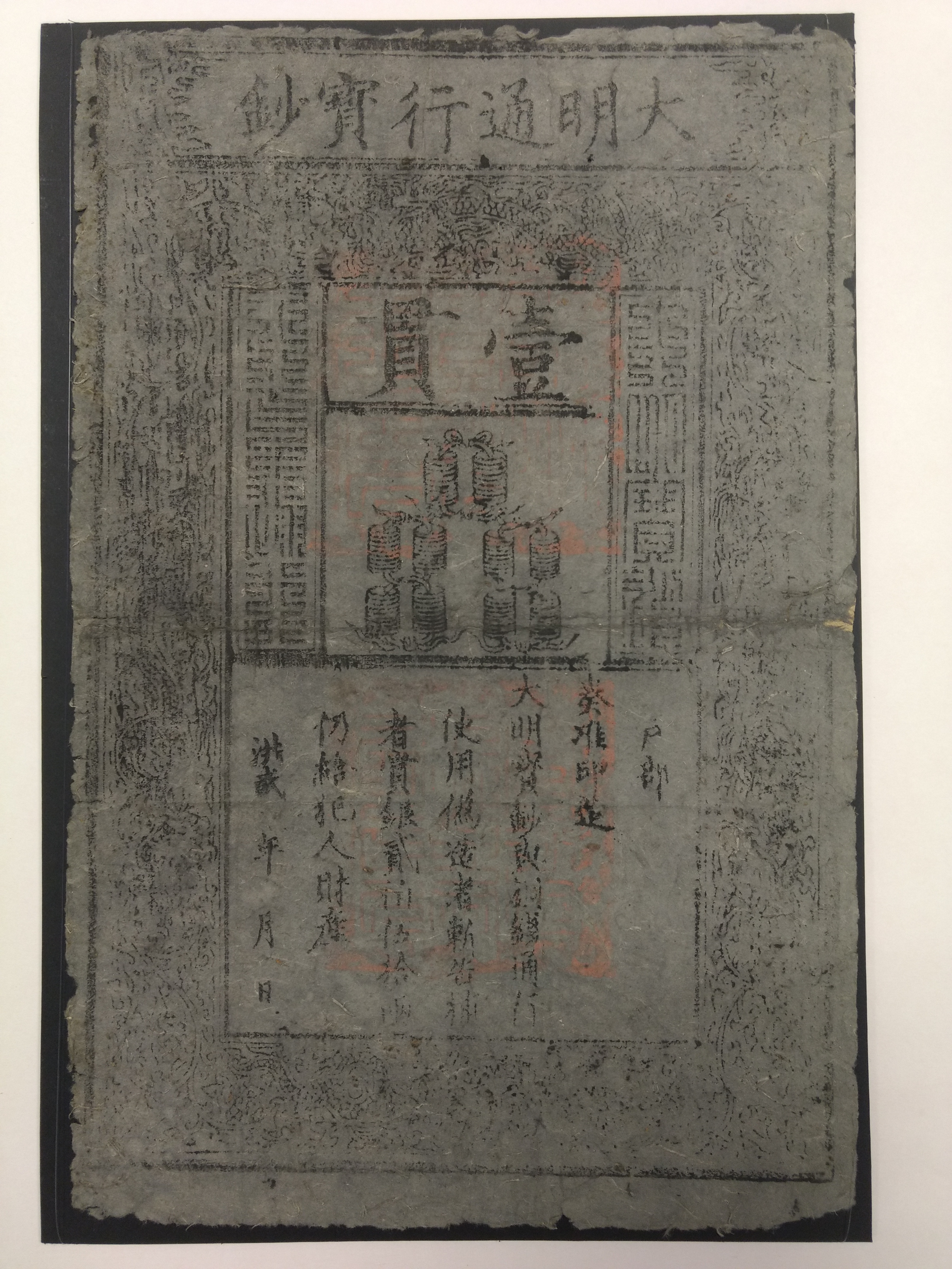 Yi Guan banknote, equivalent to 1,000 copper coins. Made in mulberry bark paper, the text warns about penalties for counterfeiters.